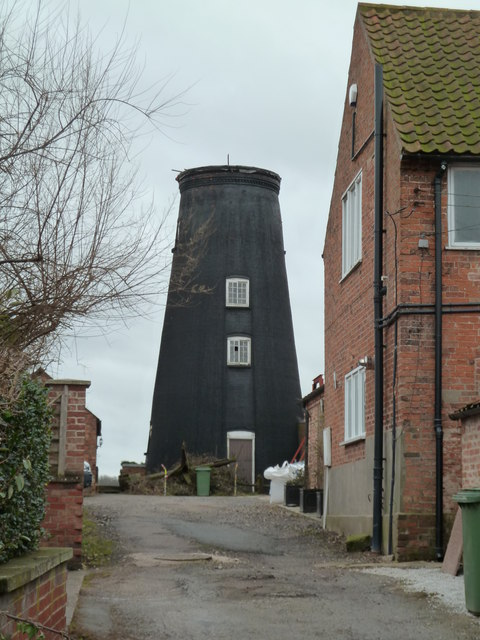 Norwell Mill, Nottinghamshire